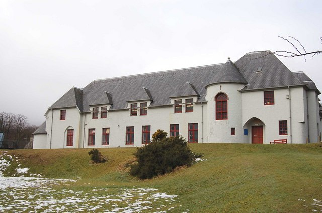 The Elgin Hostel - Portree High School. Opened in 1933 as the boys' hostel for PHS, this building is now used as part of the main school - mainly for art and computing. Hostels for both boys and girls who travel too far for daily commuting are now situated away from the main school campus. The hostel is named after the Lord Elgin of Parthenon Marbles renown.